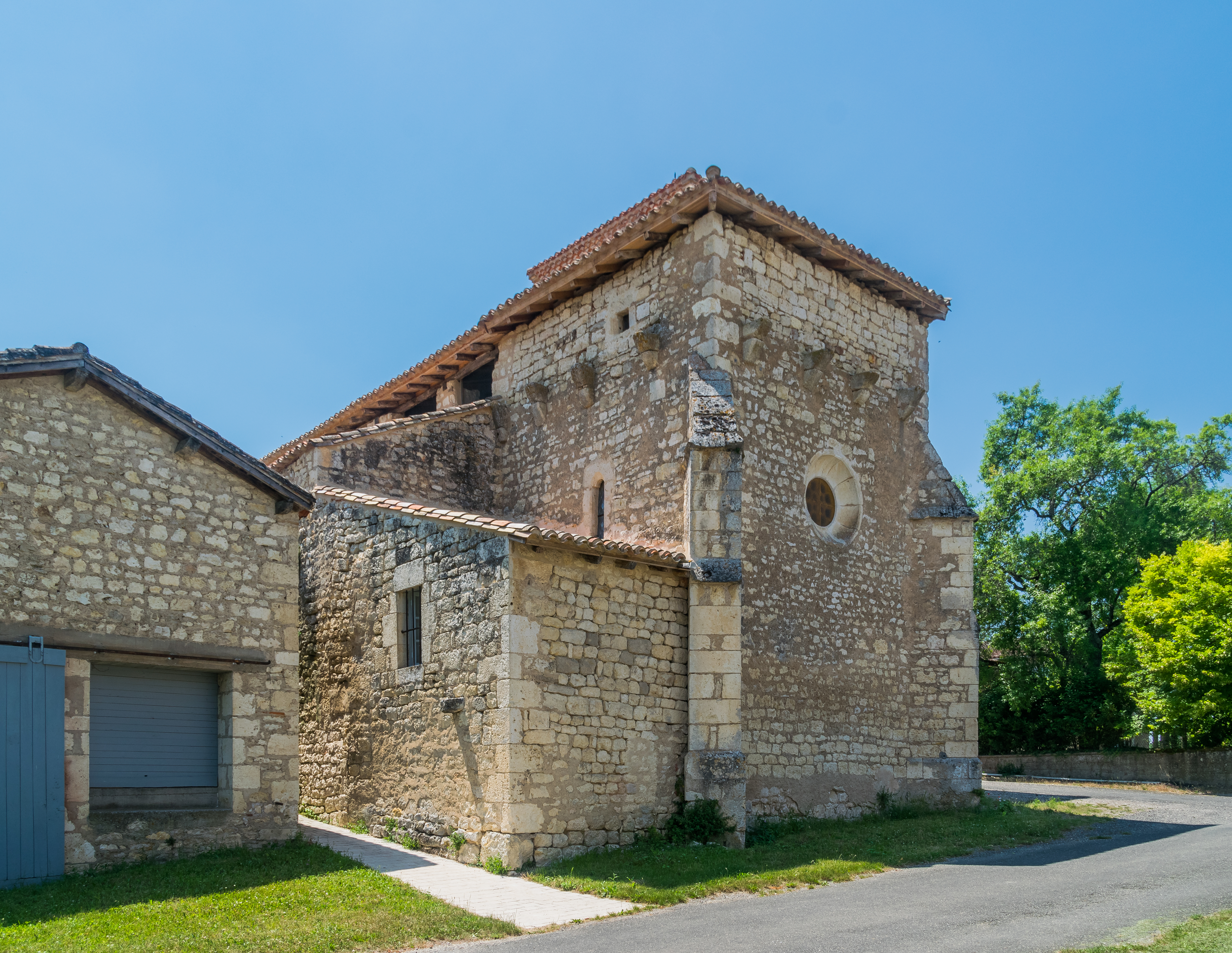 Back of the Saint Dionysius Church of Loubers, Tarn, France .